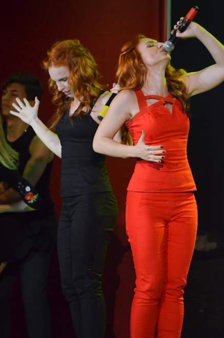 "Koronatsiya Slova 2014" awards ceremony, Kyiv, Ukraine.